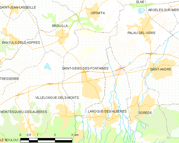 Map of French municipality